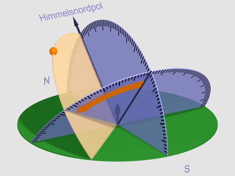 The hour angle of a celestial body is the angle between the meridian and the hour circle on which the body is located. The diagram shows the situation for an observer at a geographical latitude of 42°